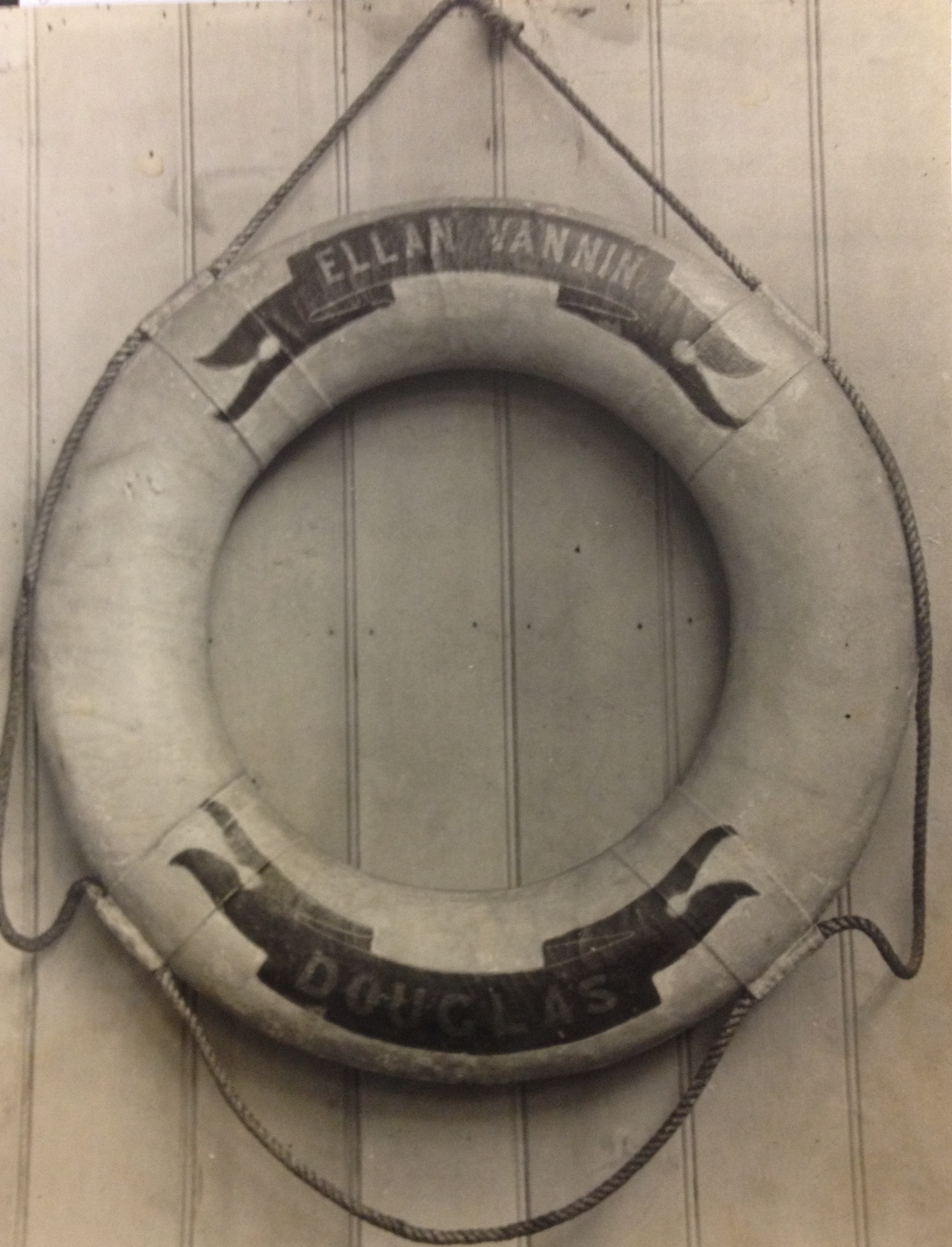 Life belt from RMS Ellan Vannin.